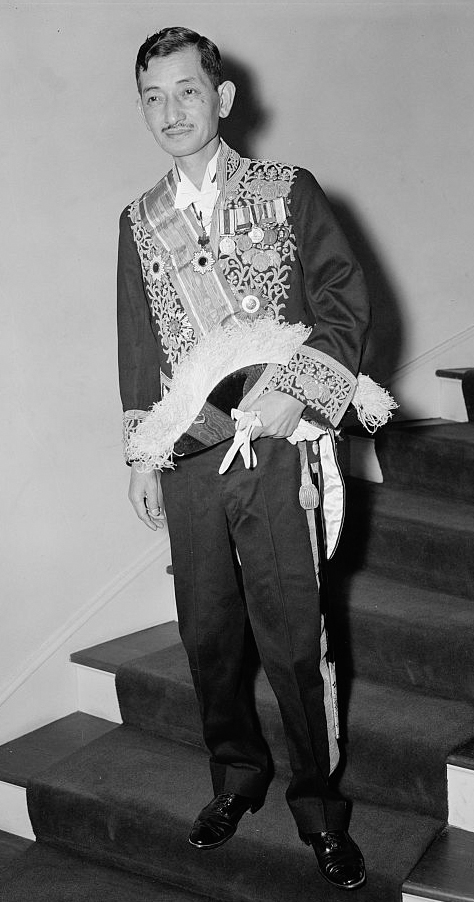 Diplomatic reception at White House. Washington, D.C., Dec. 16th. Hiroshi Saitō (斎藤博), Ambassador from Japan, photographed as he left the embassy for the White House Reception for the Diplomatic Corp, 12/16/37. (original text)